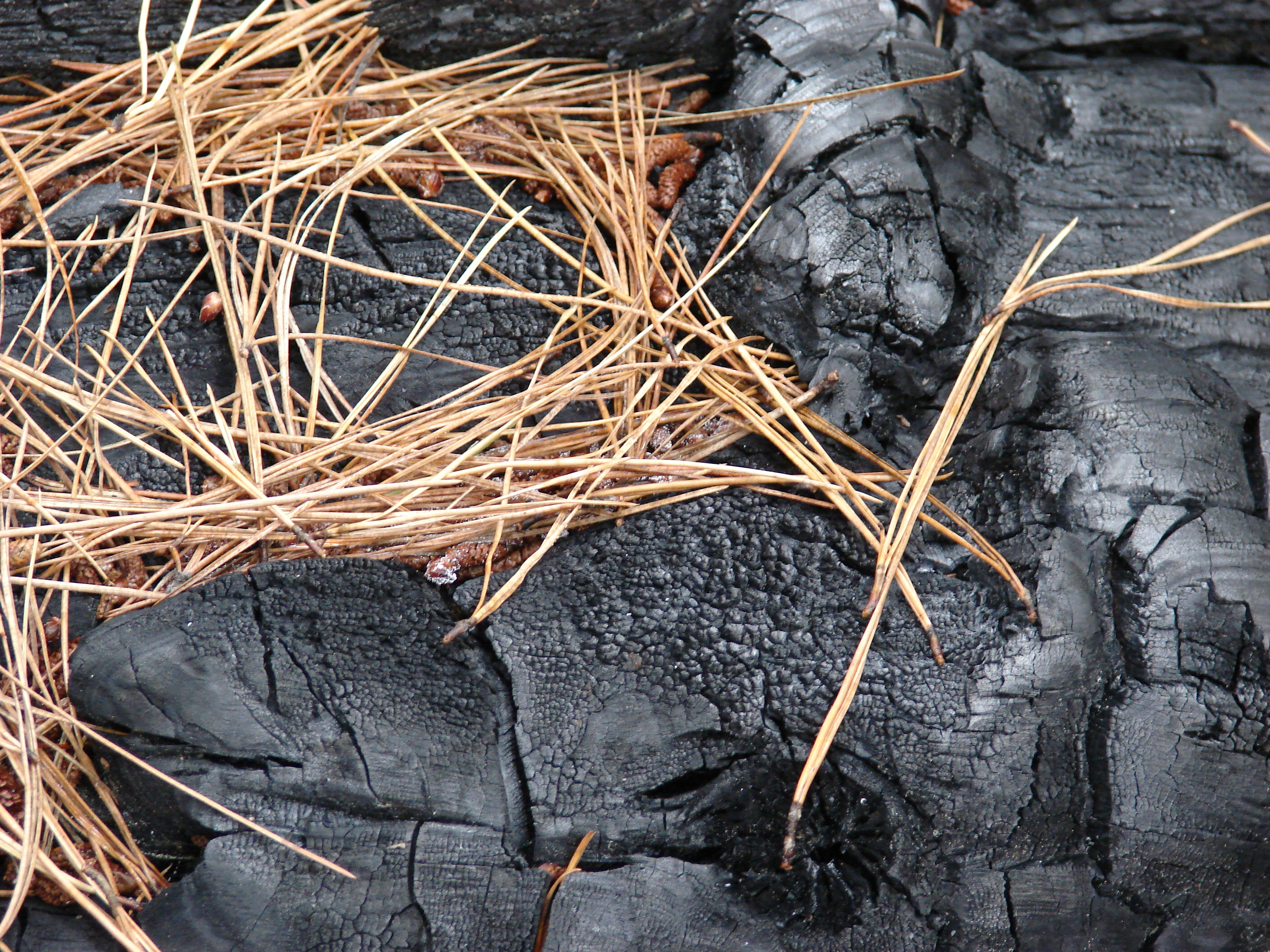 Pinus sp. (fire area charred wood and duff). Location: Maui, Polipoli